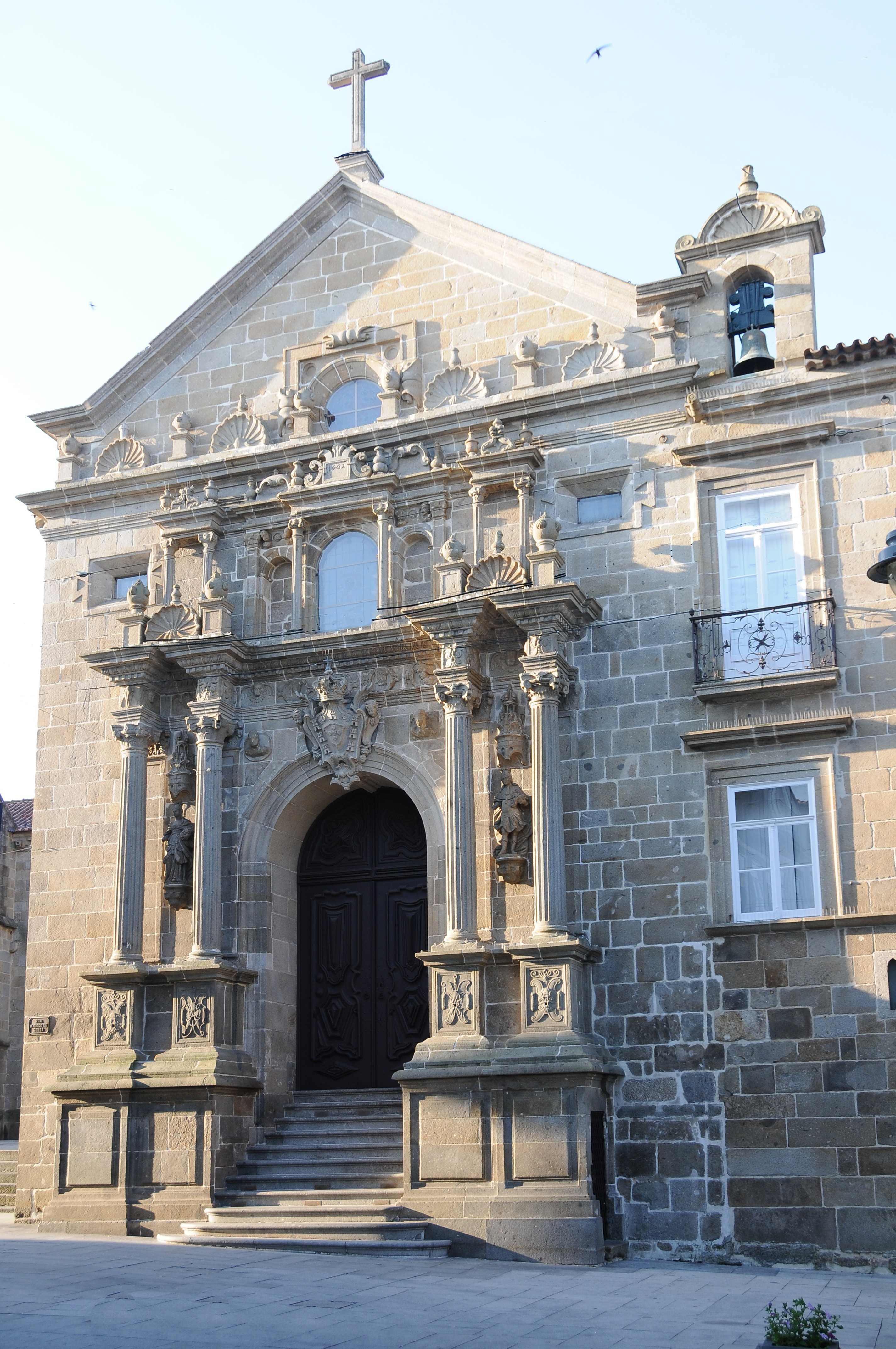 Misericordia Church in Braga, Portugal.